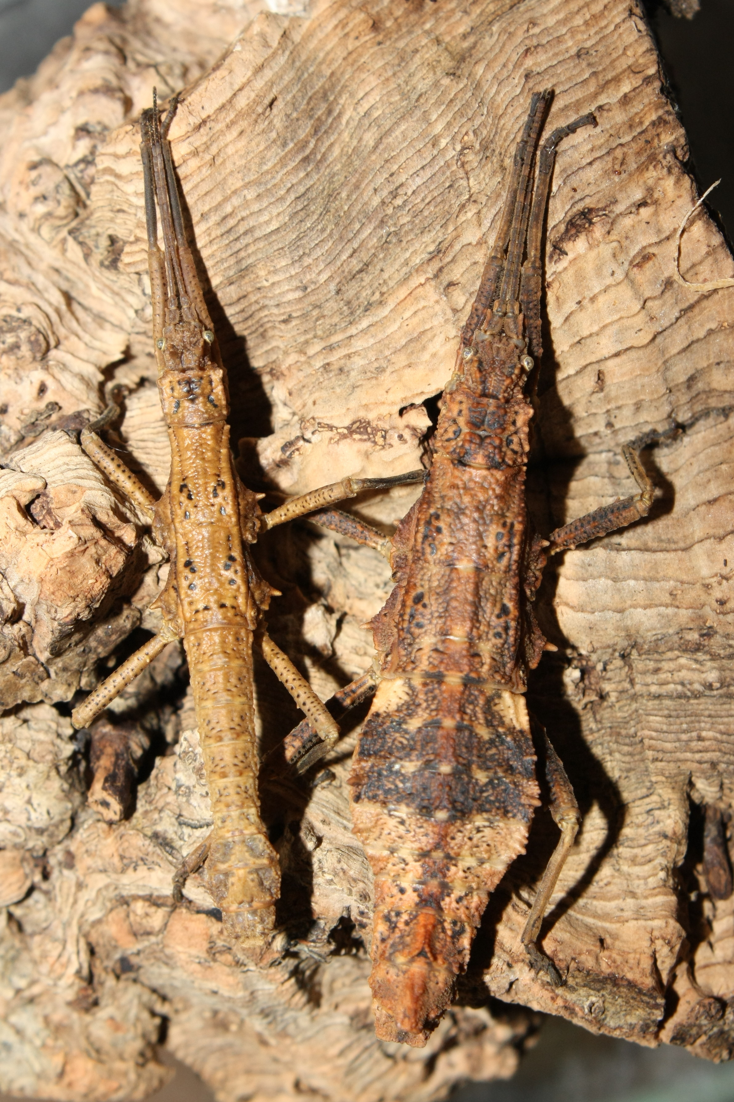 pair of Dares philippinensis, male left, female right